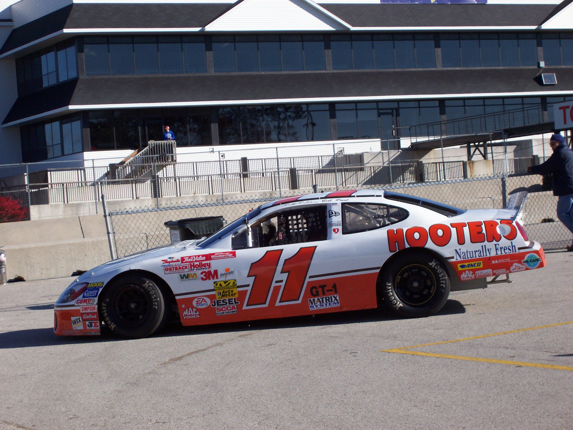 The car had the feature won at Road America, but ran out of fuel in the backstretch on the last lap after 40 miles. I remember this car racing in Cup.10.27.07 Road America - #11 Brett Bodine Cup car